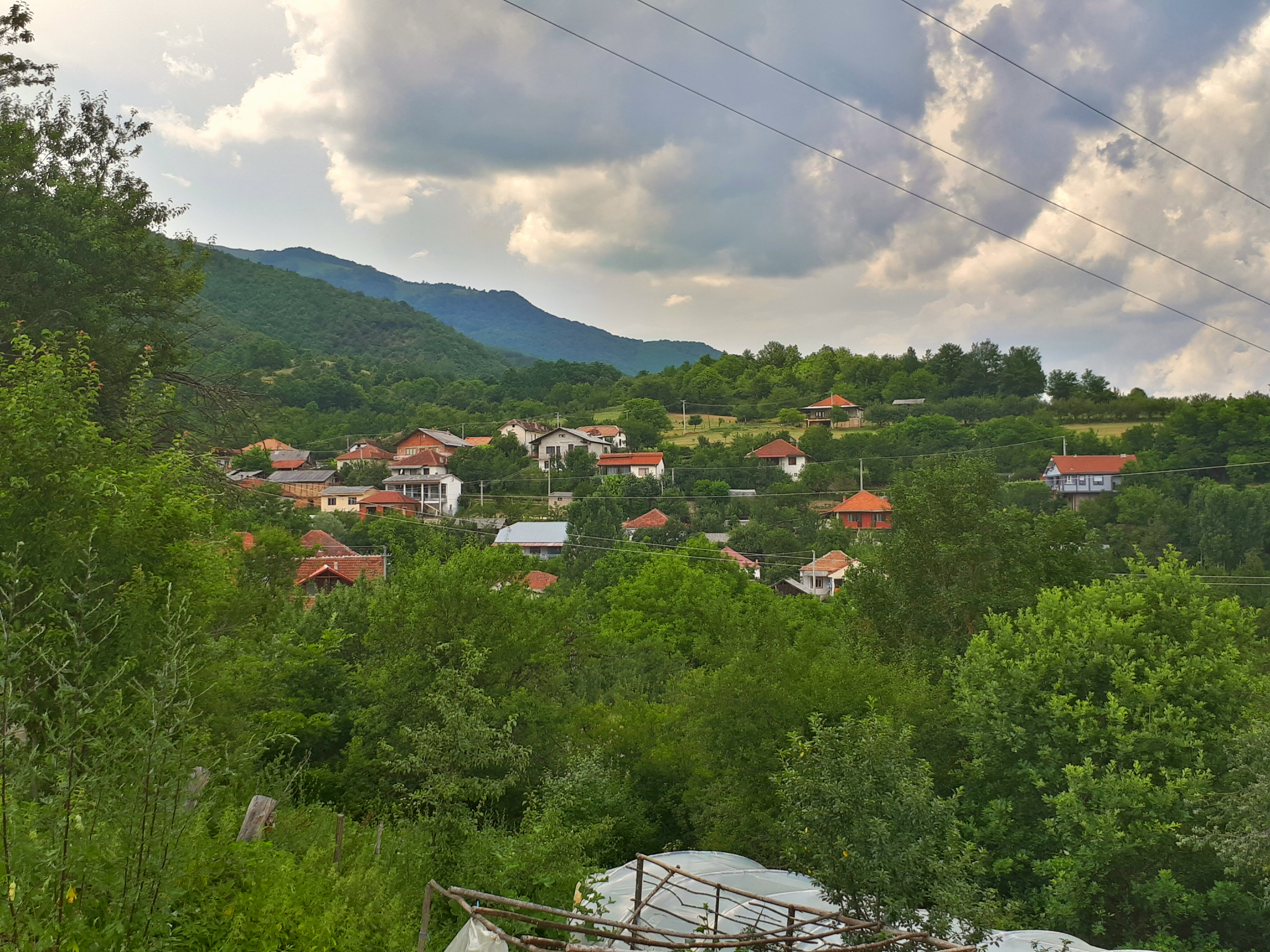 View of the village Trebino